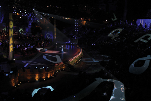 This is an erroneous copy of KOHAR_at_the_Roman_Amphitheater-Zouk_Mikael-Lebanon-2010.jpg (error in the file name)